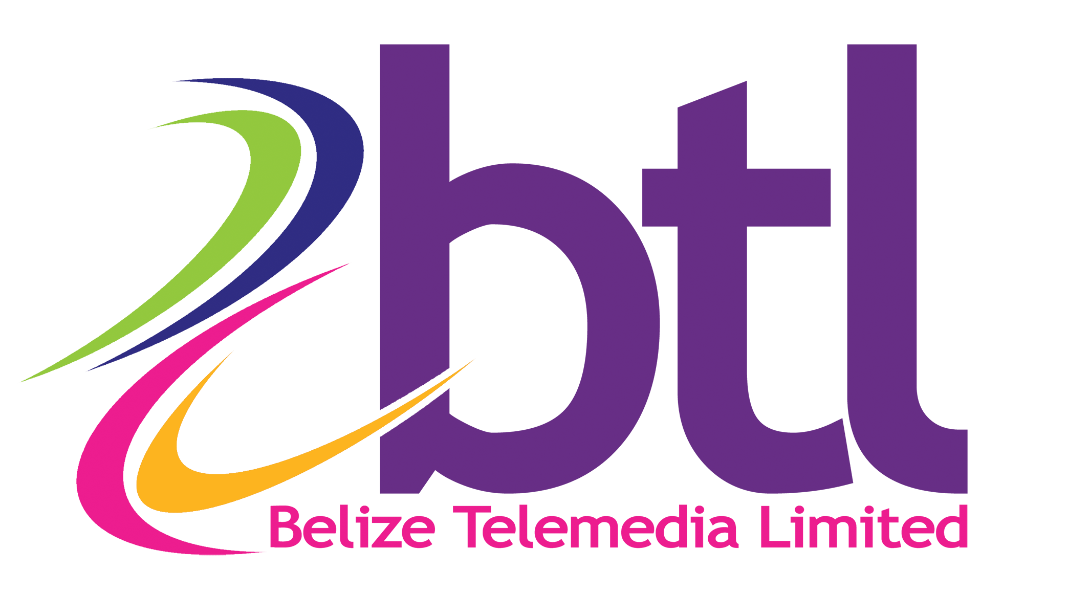 Belize Telemedia Limited Logo